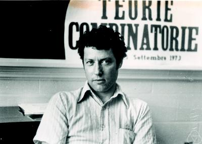 Thomas H. Brylawski, in front of a conference banner "Teorie Combinatorie"